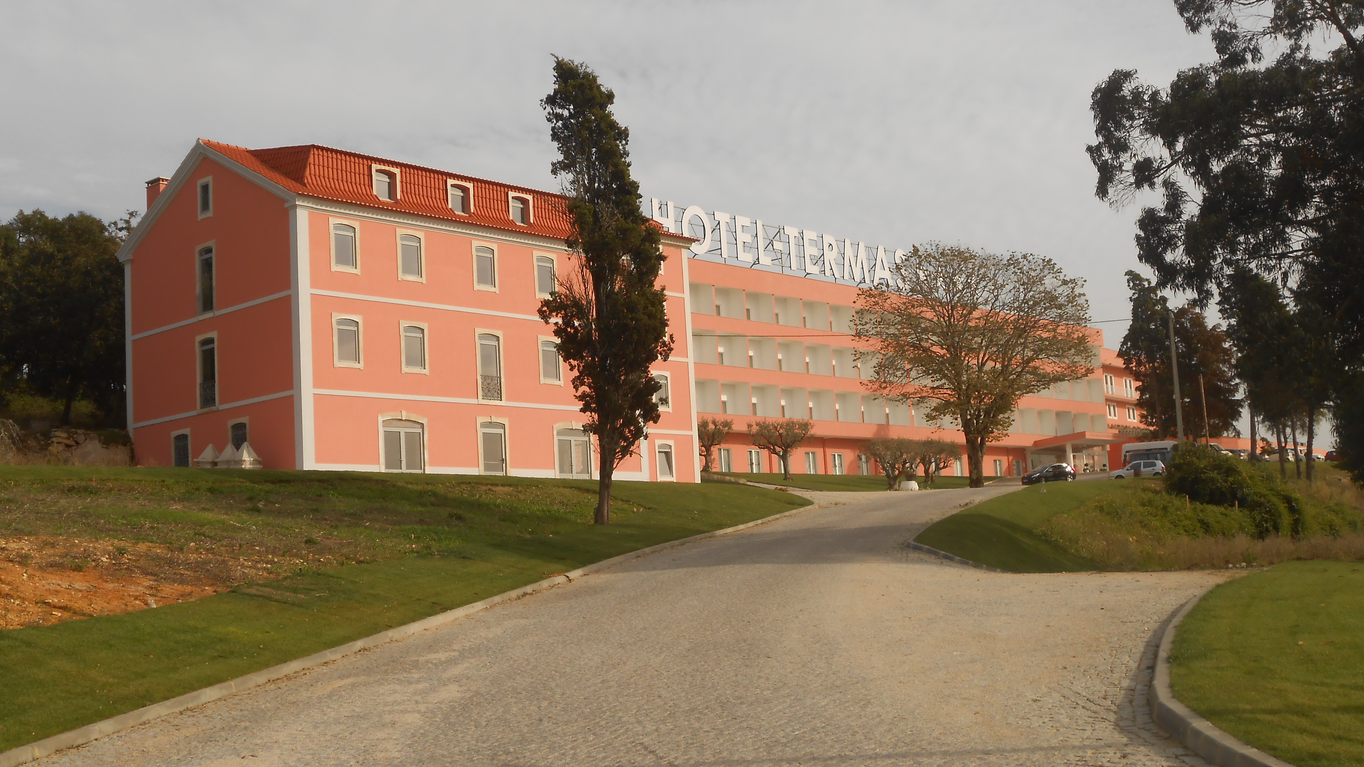 The four star Palace Hotel and Spa Termas do Bicanho was erected on the site where the former thermal baths of Termas do Bicanho were left for decadence since decades. It was inaugurated in 2015 and it is located on the west end of the Samuel parish, in the municipality of Soure. The two other thermal baths in the parish of Samuel, Azenha and Amieira, are situated in the neighbour area.